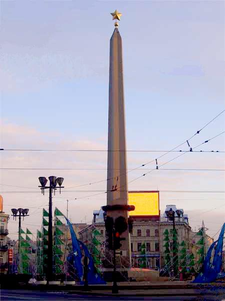 Hero-City Obelisk (Leningrad) — is located in Vosstaniya Square in Saint Petersburg — Leningrad. Installed in May 1985 and the fortieth anniversary of the Victory Day (May 9) in Great Patriotic War. The authors of the monument — architects V.S.Lukyanov and A.I.Alymov.